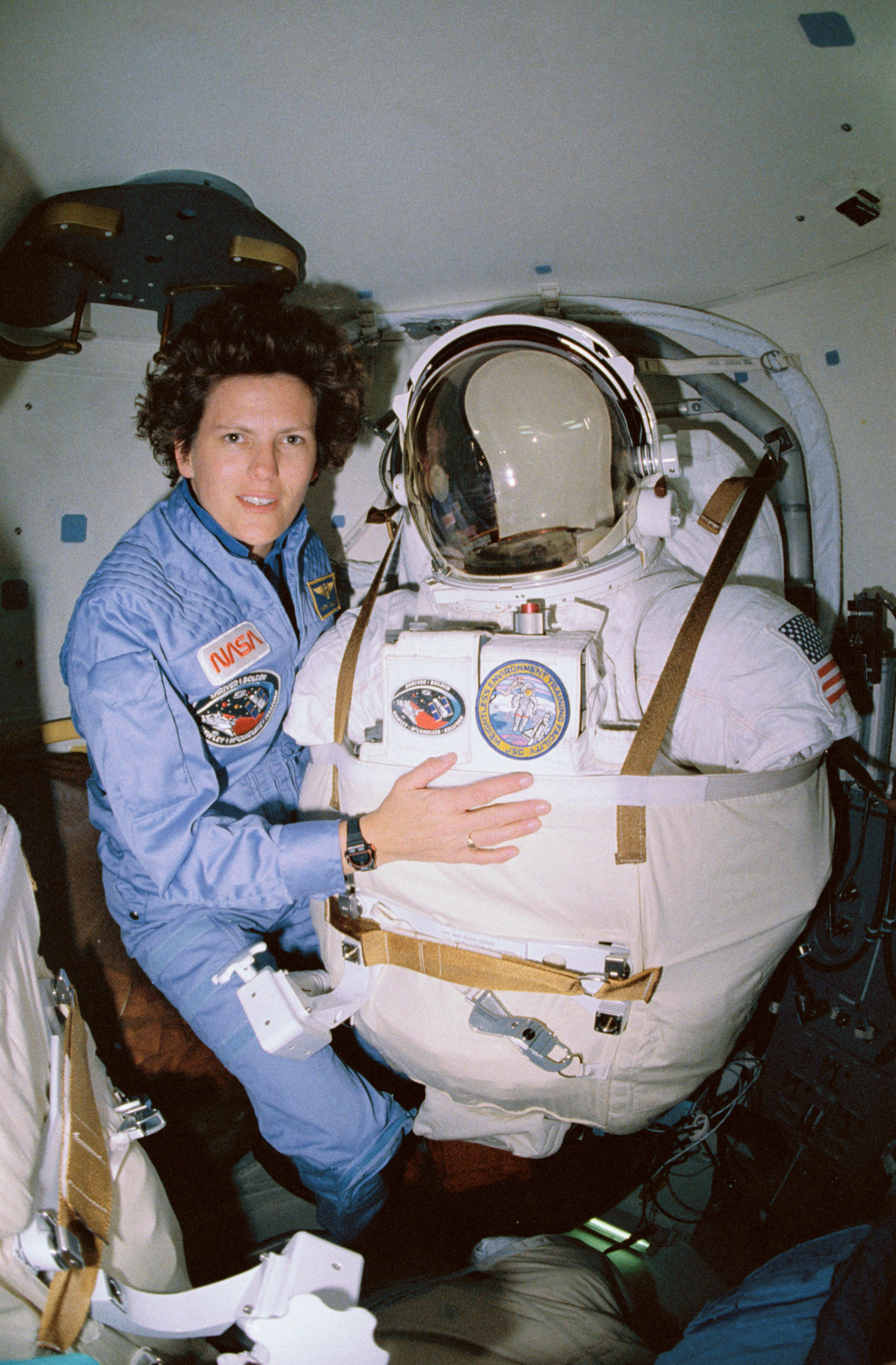 STS-31 Mission Specialist Kathryn D. Sullivan poses for a picture before donning her space suit and extravehicular mobility unit in the airlock ofDiscovery. Onboard the April 25, 1990 shuttle mission that deployed the Hubble Space Telescope,Sullivan remained ready to do a spacewalk in case that there were problems putting the orbital observatory into space. The deployment went smoothly, and no spacewalk was necessary.